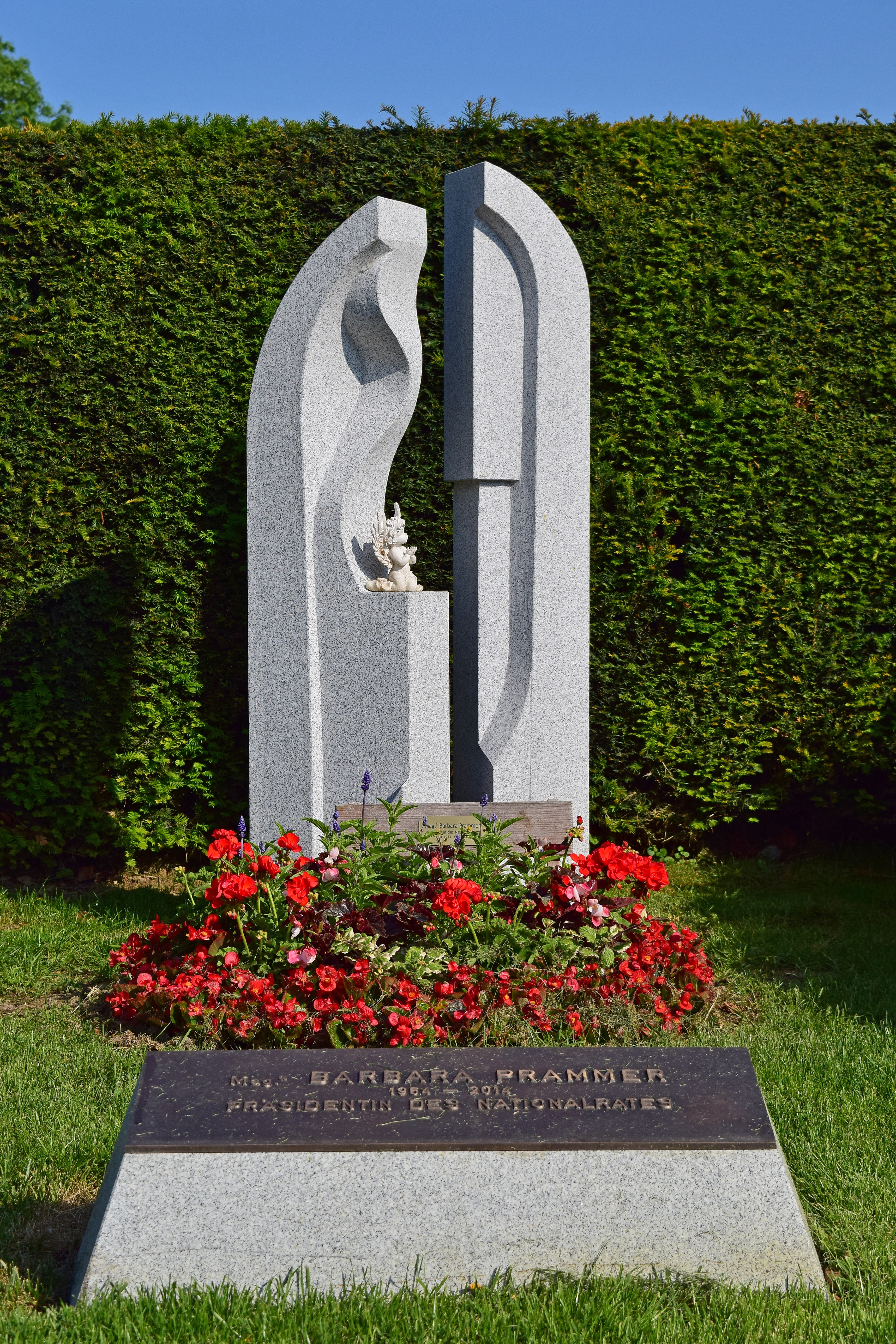 Grave of honor of Barbara Prammer at the Vienna Central Cemetery